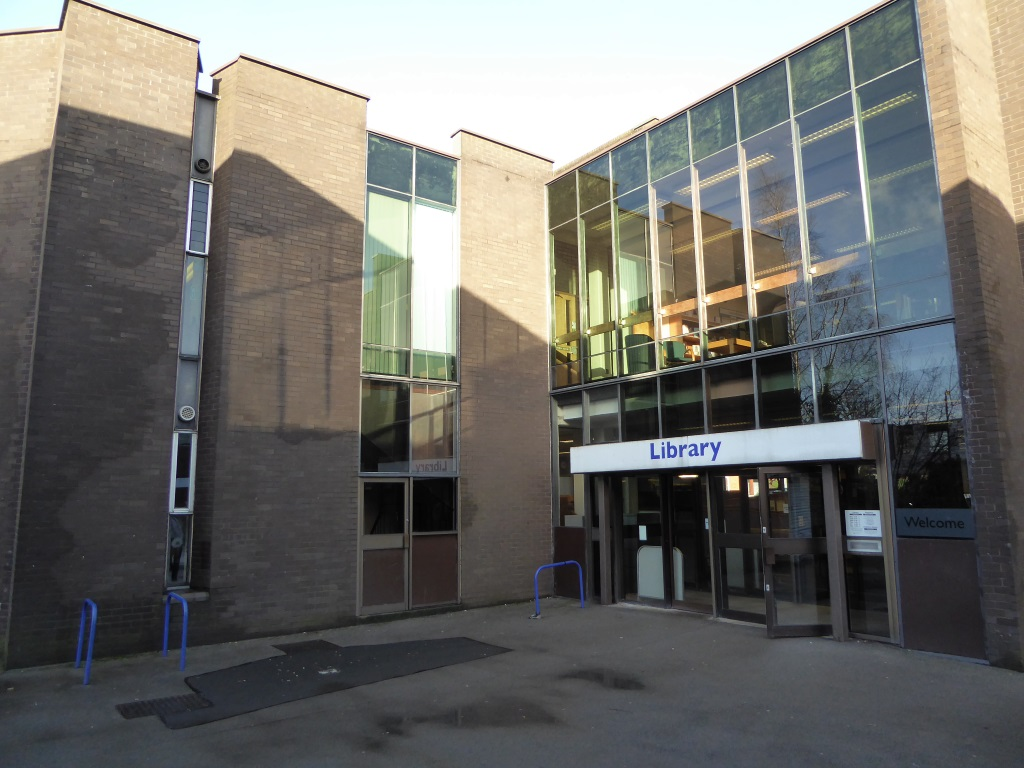 Also home to Cheshire Dance, and the registrars office. Visited by members of the Libraries Taskforce. Photo credit: Julia Chandler/Libraries Taskforce